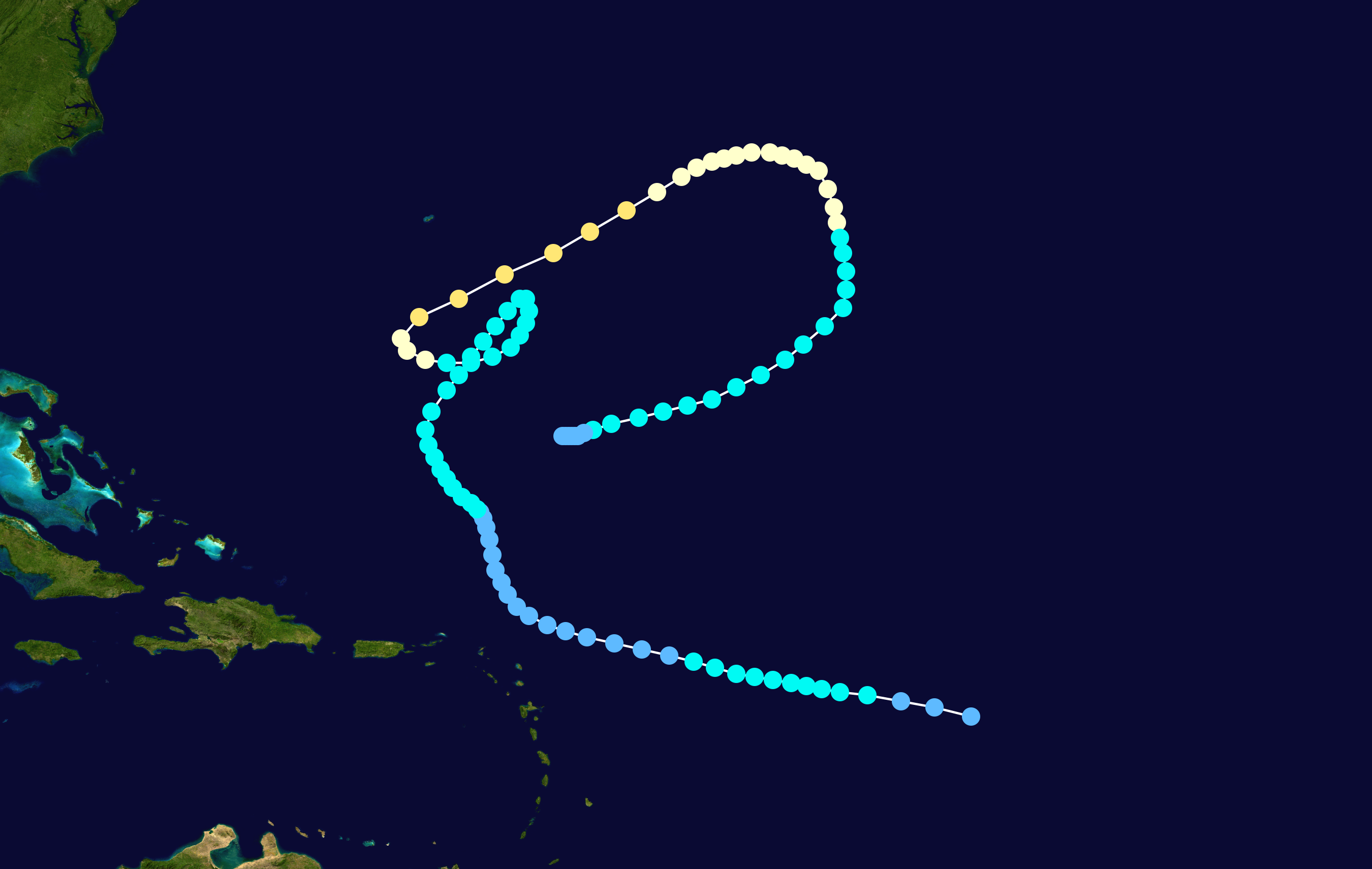 Hurricane Inga (1969) track. Uses the color scheme from the Saffir-Simpson Hurricane Scale.